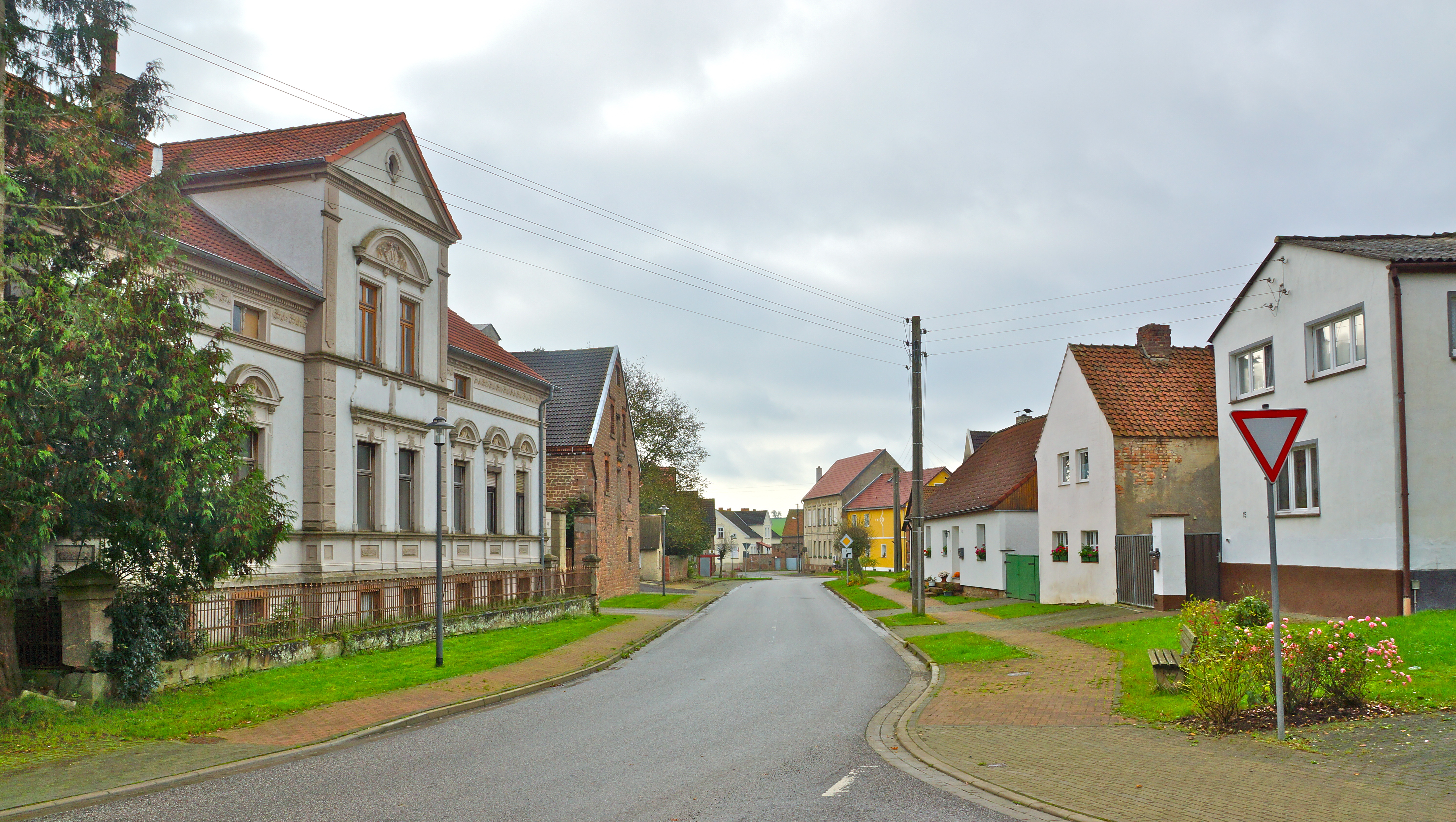 Altenhausen (Emden), Germany: High Street (K1149)